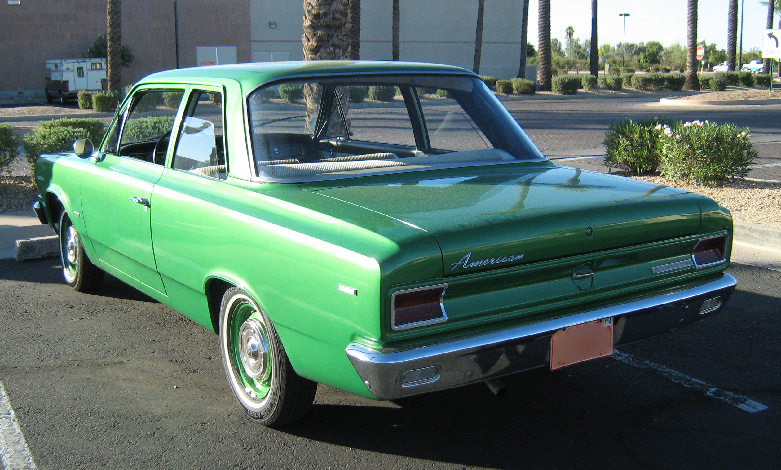 1967 Rambler American 220 (base model) two-door sedan made by American Motors Corporation (AMC). Rear view of this sedan.